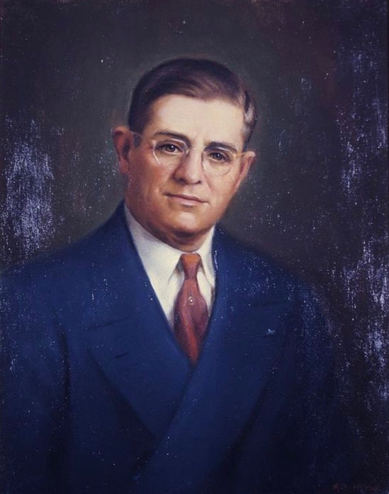 Collection: Governors Portraits photograph collection Call number: PI/1989.0008 System ID: 98804. Link to the catalog Governor Thomas L. Bailey, Jan. 18, 1944 to Nov. 2, 1946. Please see our profile page for information on ordering. Scanned as tiff in 2008/09/22 by MDAH. Credit: Courtesy of the Mississippi Department of Archives and History